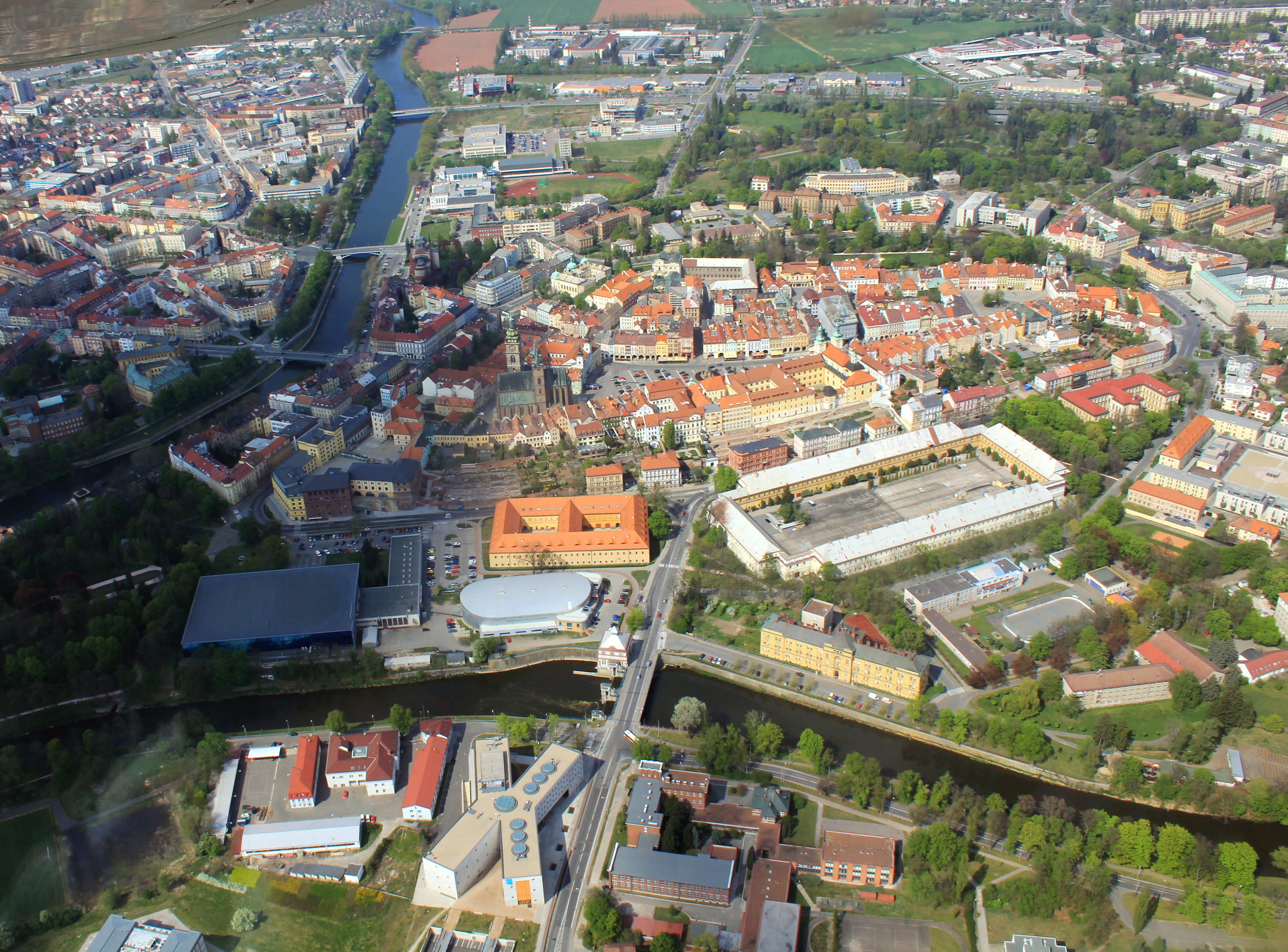 Town Hradec Králové from air, eastern Bohemia, Czech Republic